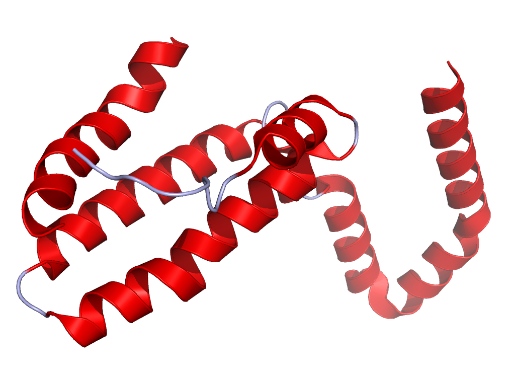 Crystal structure of IL-10 as published in the Protein Data Bank (PDB: 2H24)